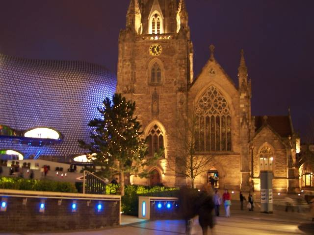 On the left is the Selfridges building, part of the new Birmingham Bullring shopping centre in Birmingham city centre. In the centre is St Martin's parish church. The photo was taken at dusk - at 5:05 p.m. in fact.